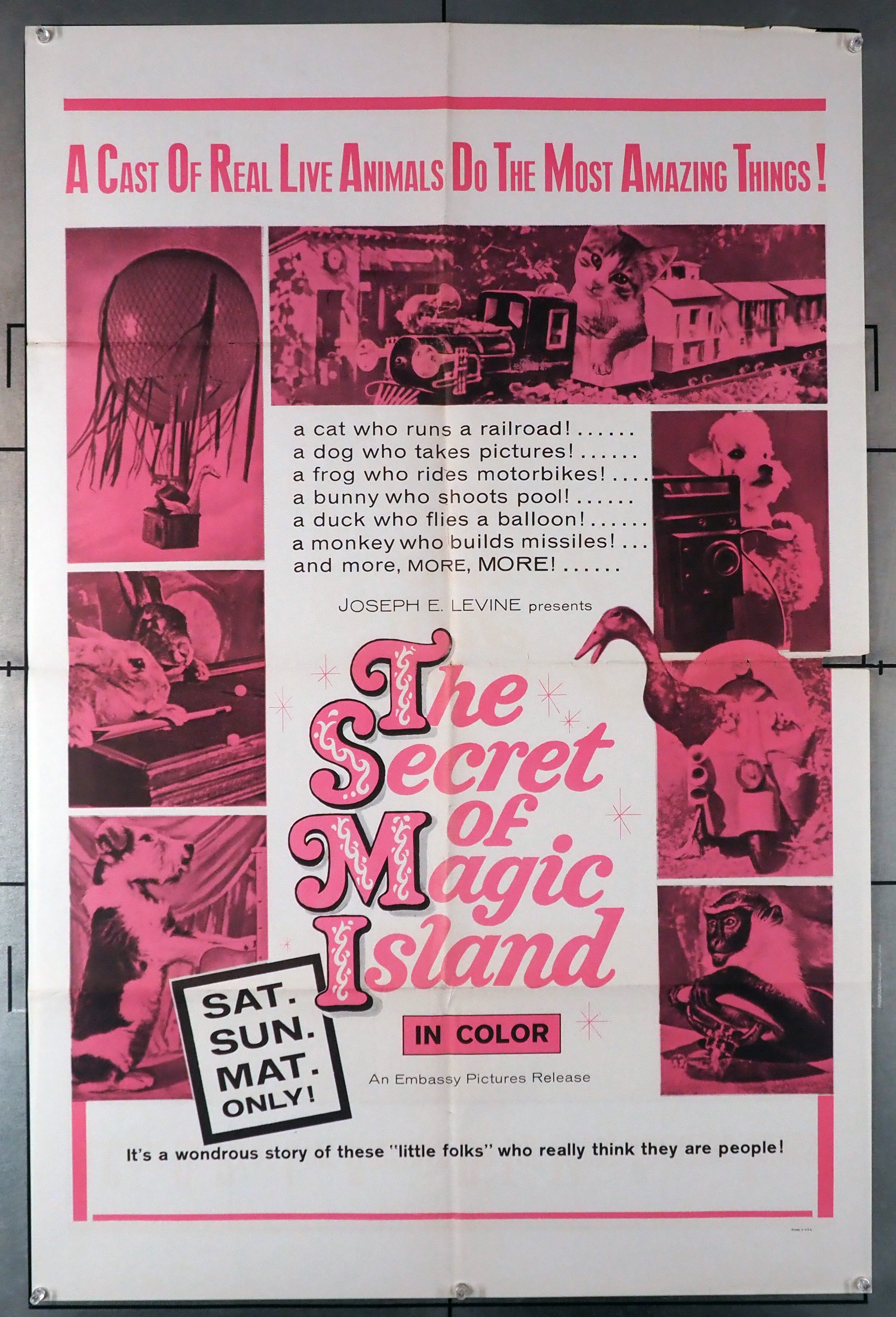 U.S. one-sheet poster for the film Une fée... pas comme les autres (1956). Released in the U.S. as "The Secret of Magic Island" in 1964. The film's "stars" are small animals that do various activities.